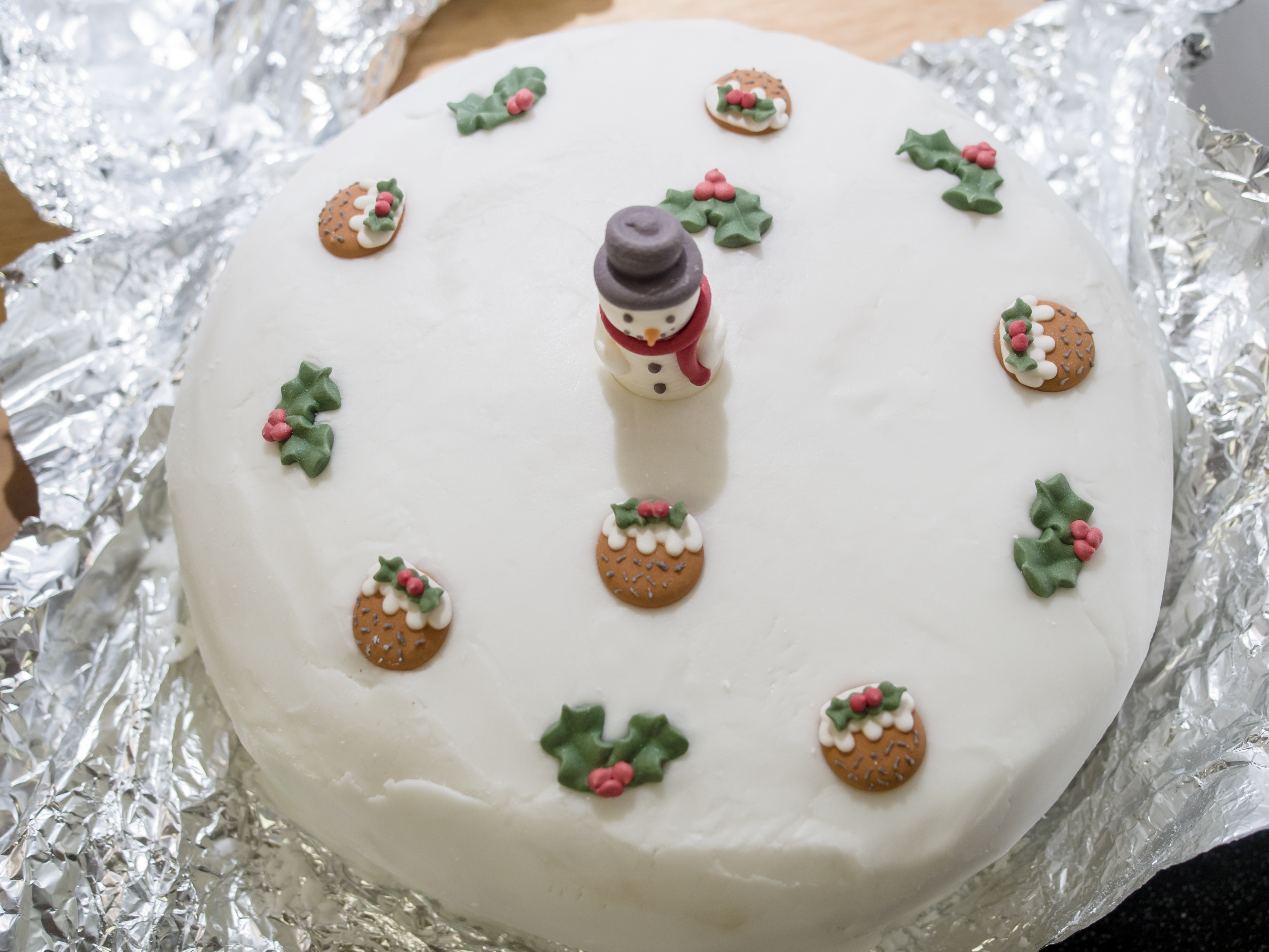 Iced and decorated